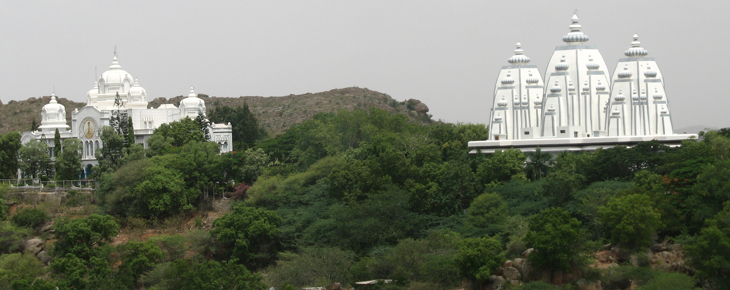 Administration_Building_and_the_Museum_of_Religions_in_Prashanthi_Nilayam, India, Puttaparthi, ashram Sathya Sai Baba